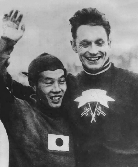 1952 Press Photo Japan Olympic skater K Sugawara & Norway's Anderson - net14640